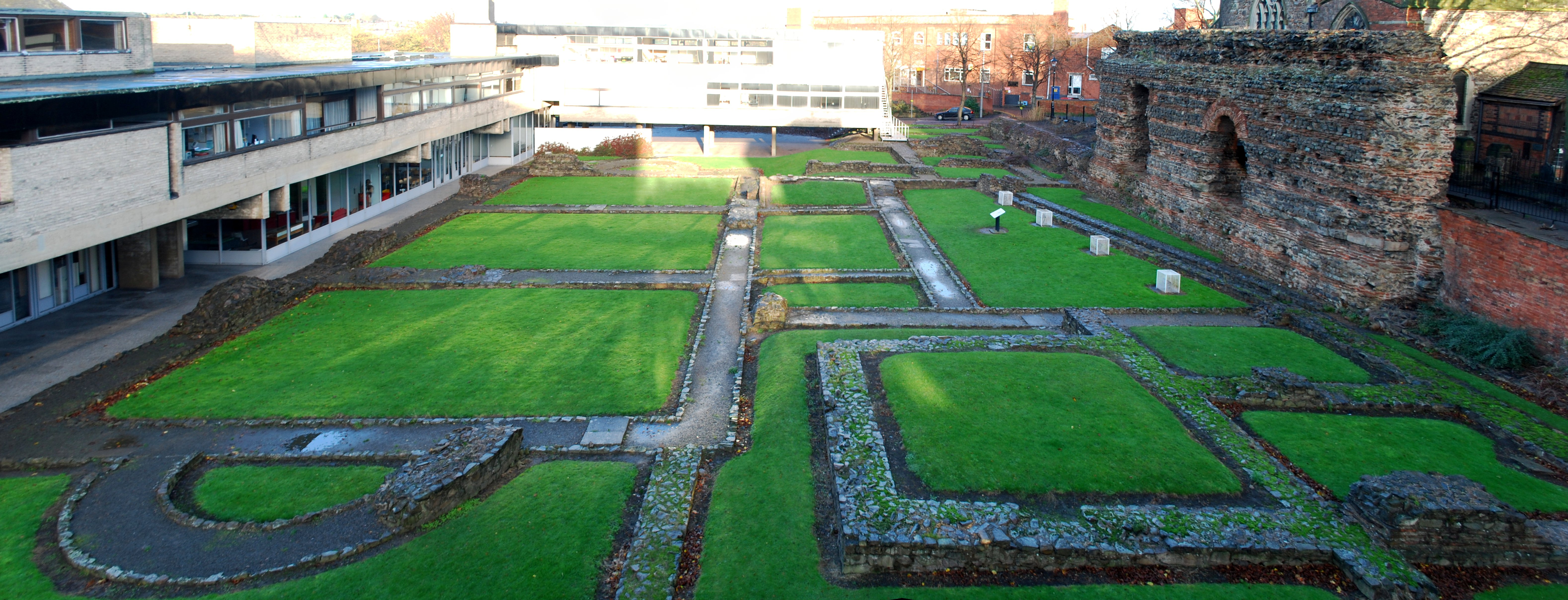 The Roman ruins adjacent to the Jewry Wall and Vaughan College in Leicester, England